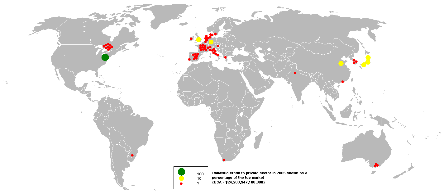 This bubble map shows the global distribution of credit available to private sector in 2005 as a percentage of the top market (USA - $24,263,947,100,000). This map is consistent with incomplete set of data too as long as the top market is known. It resolves the accessibility issues faced by colour-coded maps that may not be properly rendered in old computer screens. Data was extracted on 3rd July 2007 from Based on :Image:BlankMap-World.png